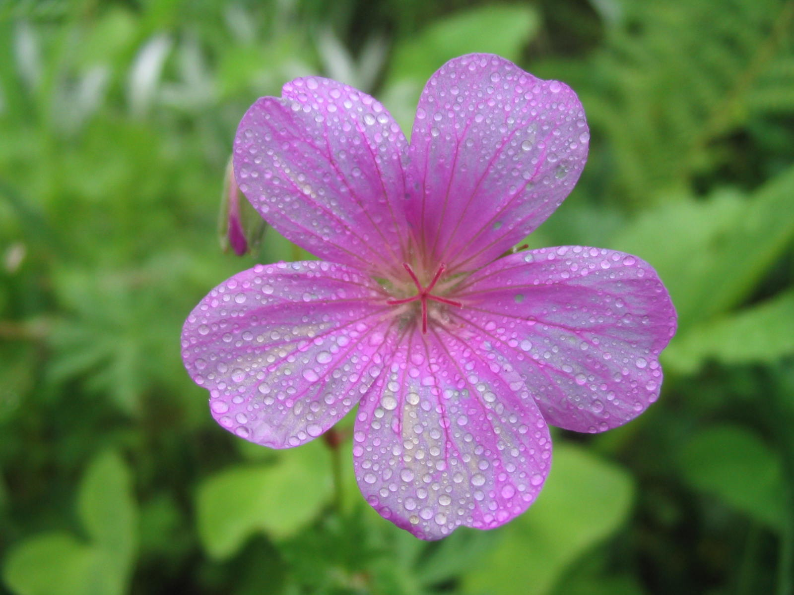 Morning Dew on a pink flower, clicked in August at Valley of Flowers. Canon Powershot, macro mode.Photographed by Pankaj Batra, New Delhi, India